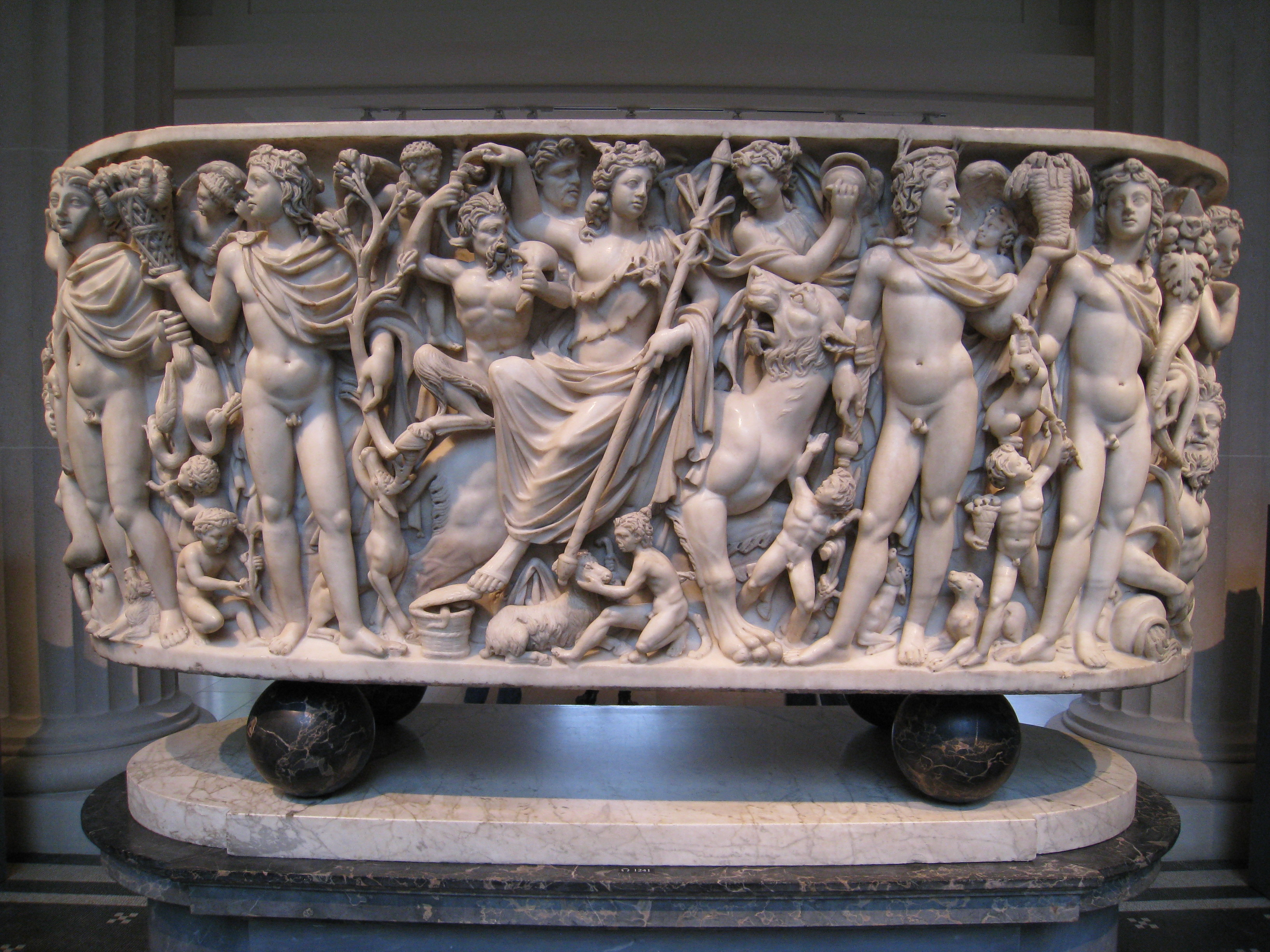 Dionysus sarcophagus, Hellenistic marble sculpture; Metropolitan Museum, New York